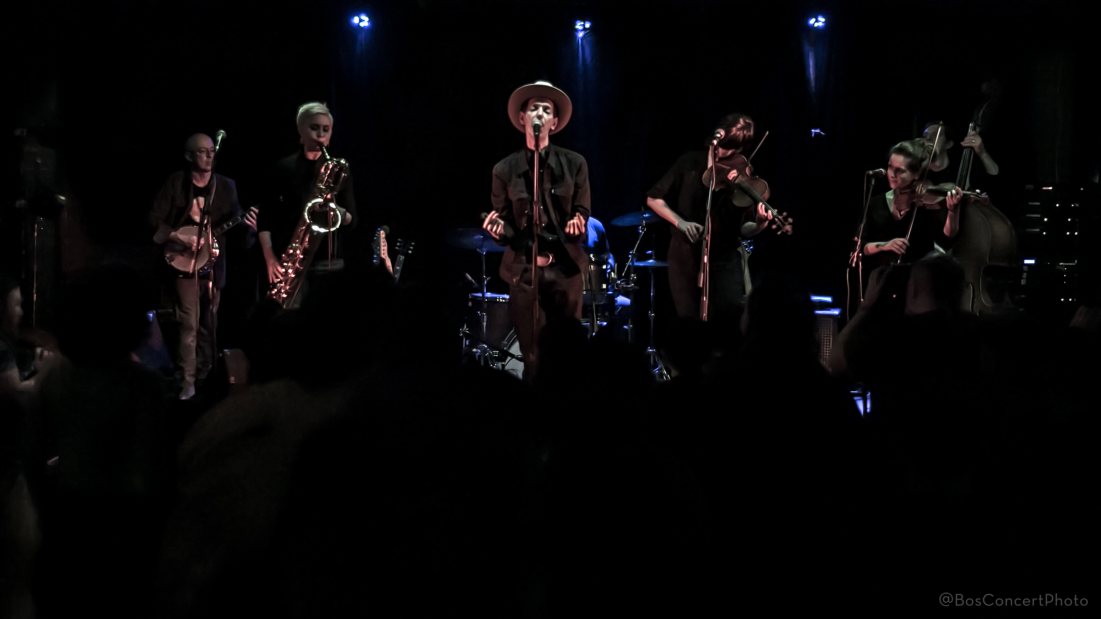 Beat Circus at Once Ballroom, Somerville MA March 2019